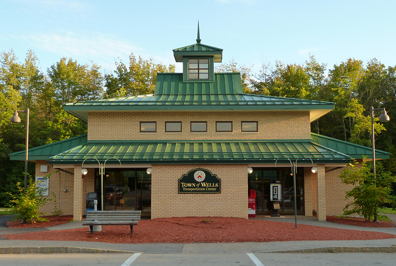 Front view of the Wells Regional Transportation Center in Wells, Maine.